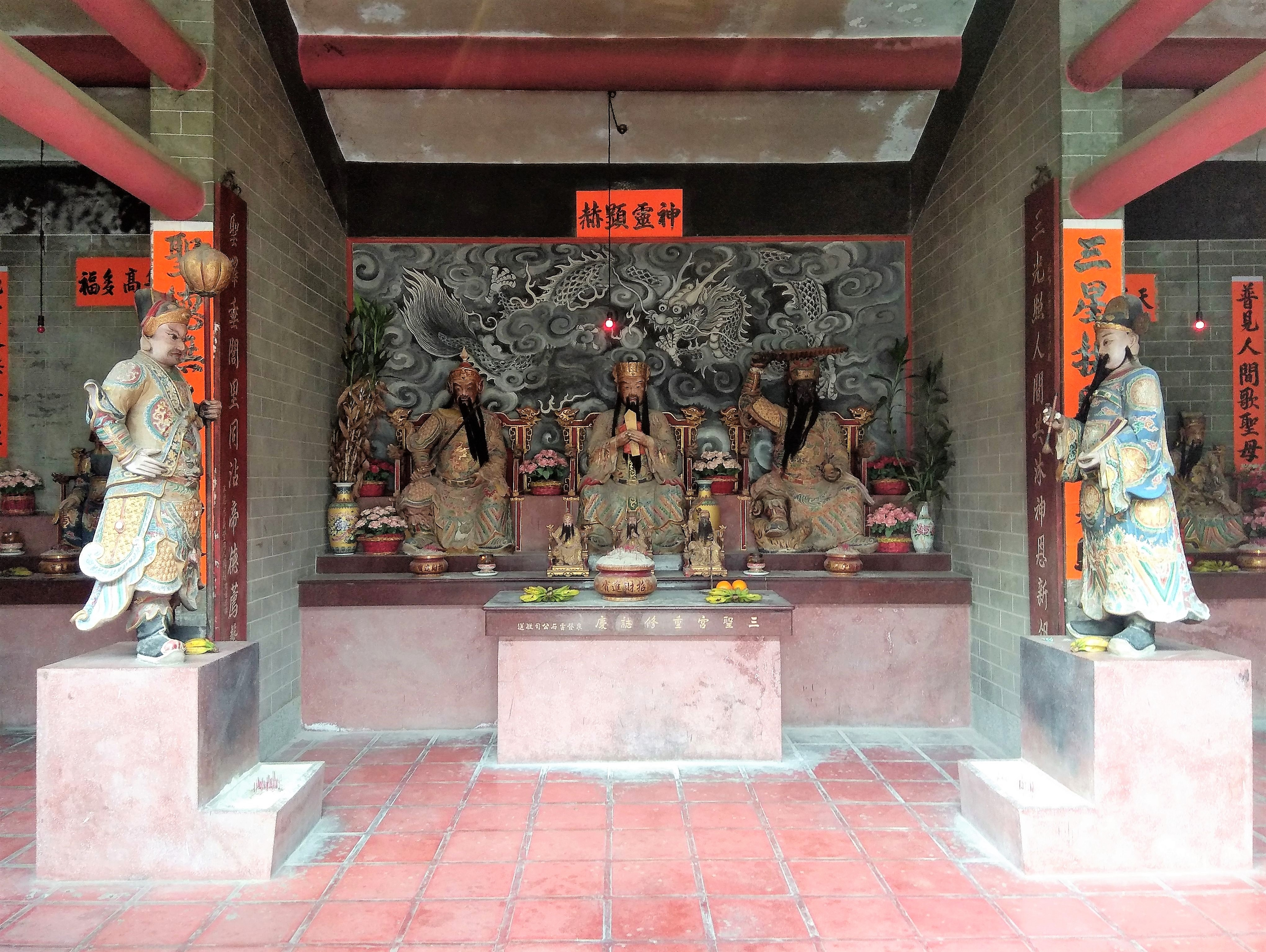 Sam Shing Temple, Tuen Tsz Wai. Statues of the main altar from left to right: Yeung Hau/Hau Wong (left), Hung Shing (middle), Marshal Yuen Tan Fuk Fu (right)